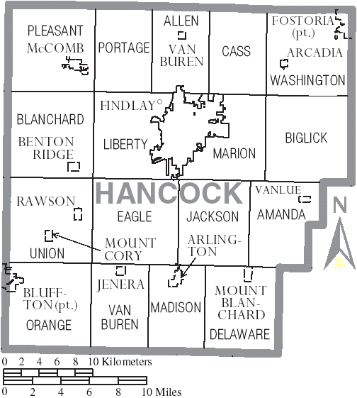 Map of Hancock County, Ohio, United States with township and municipal boundaries